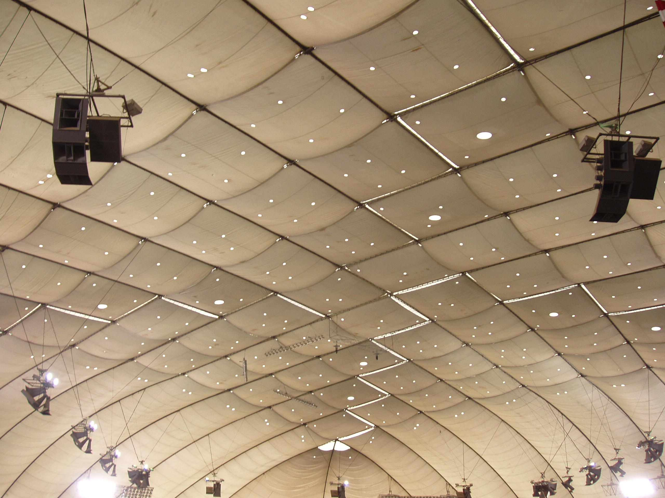 Created by user and released into public domain. Category:Images of Minneapolis, Minnesota